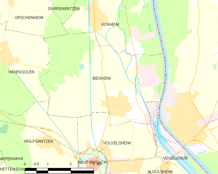 Map of French municipality